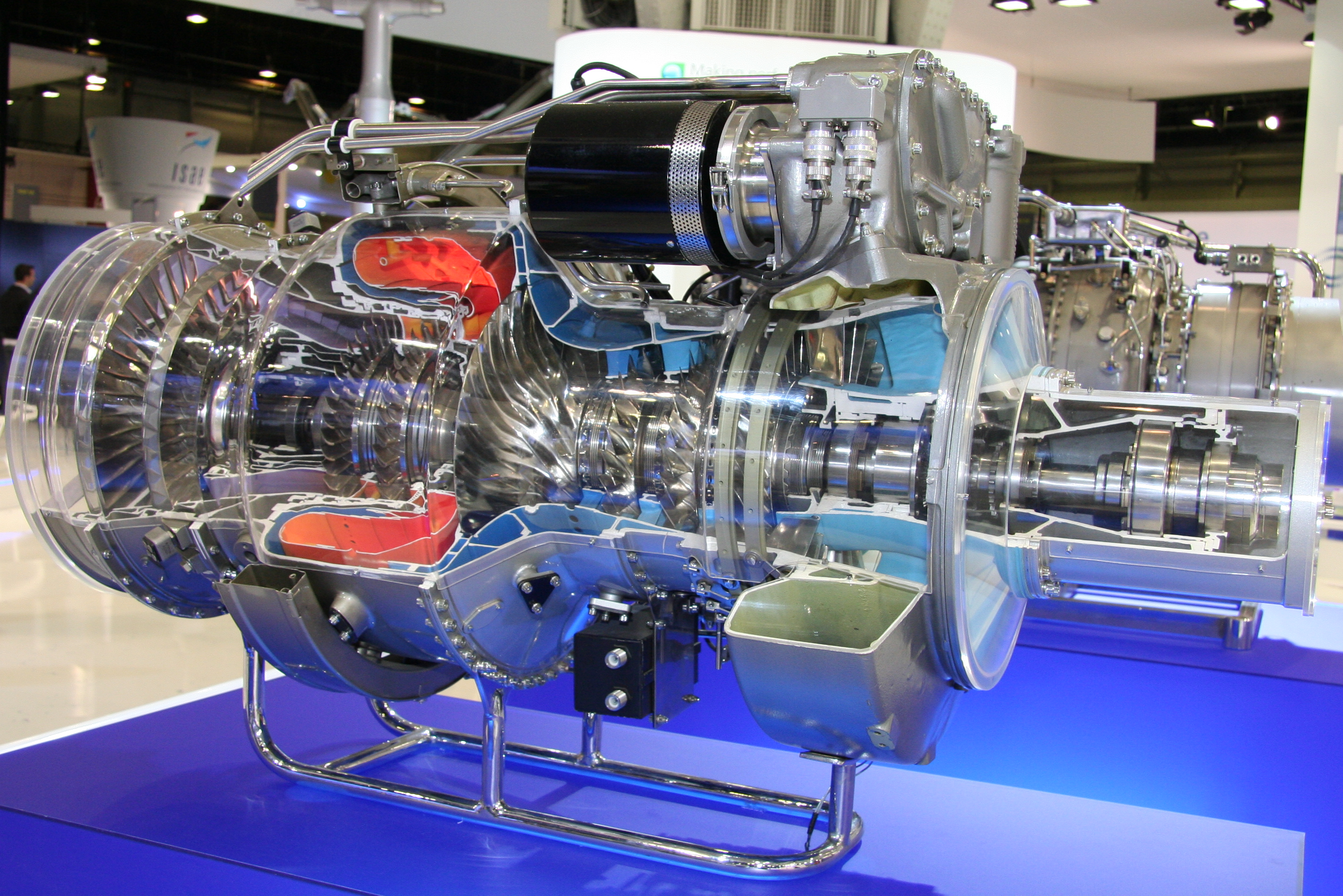 Rolls-Royce Turbomeca RTM322 - Paris Air Show 2009